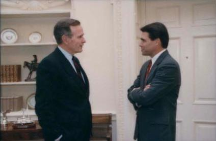 President George H. W. Bush meets with Rick Perry and Nayla Moawad